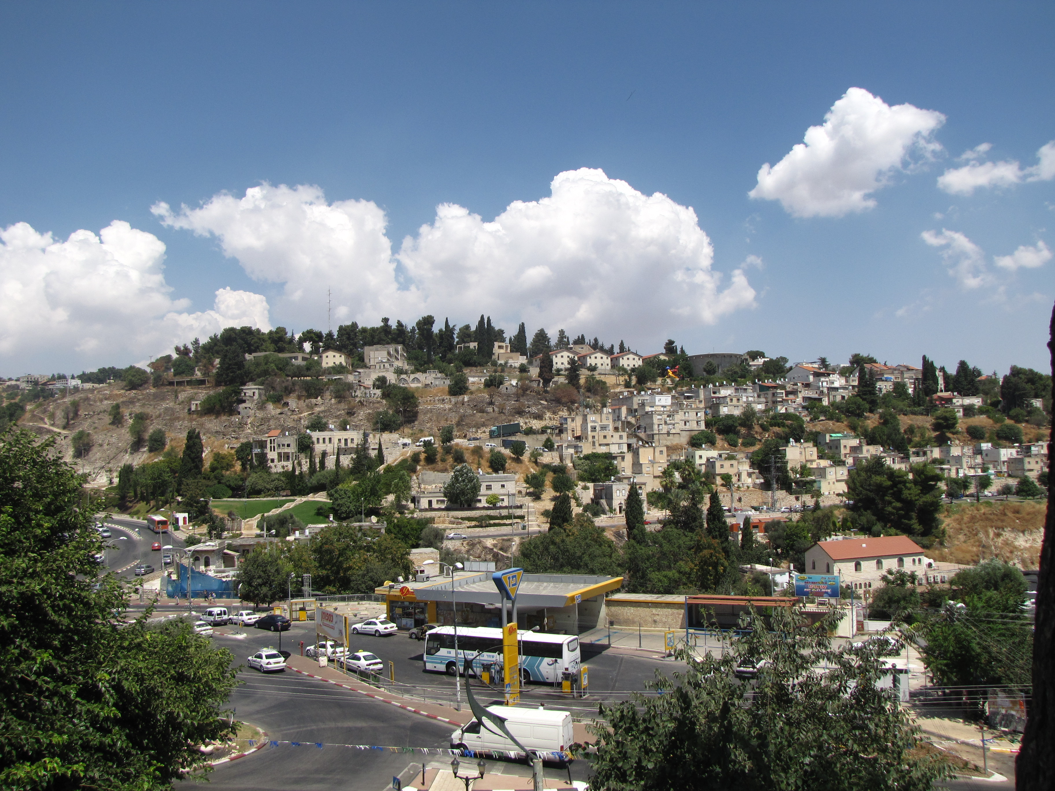 Safed city in July 2009.